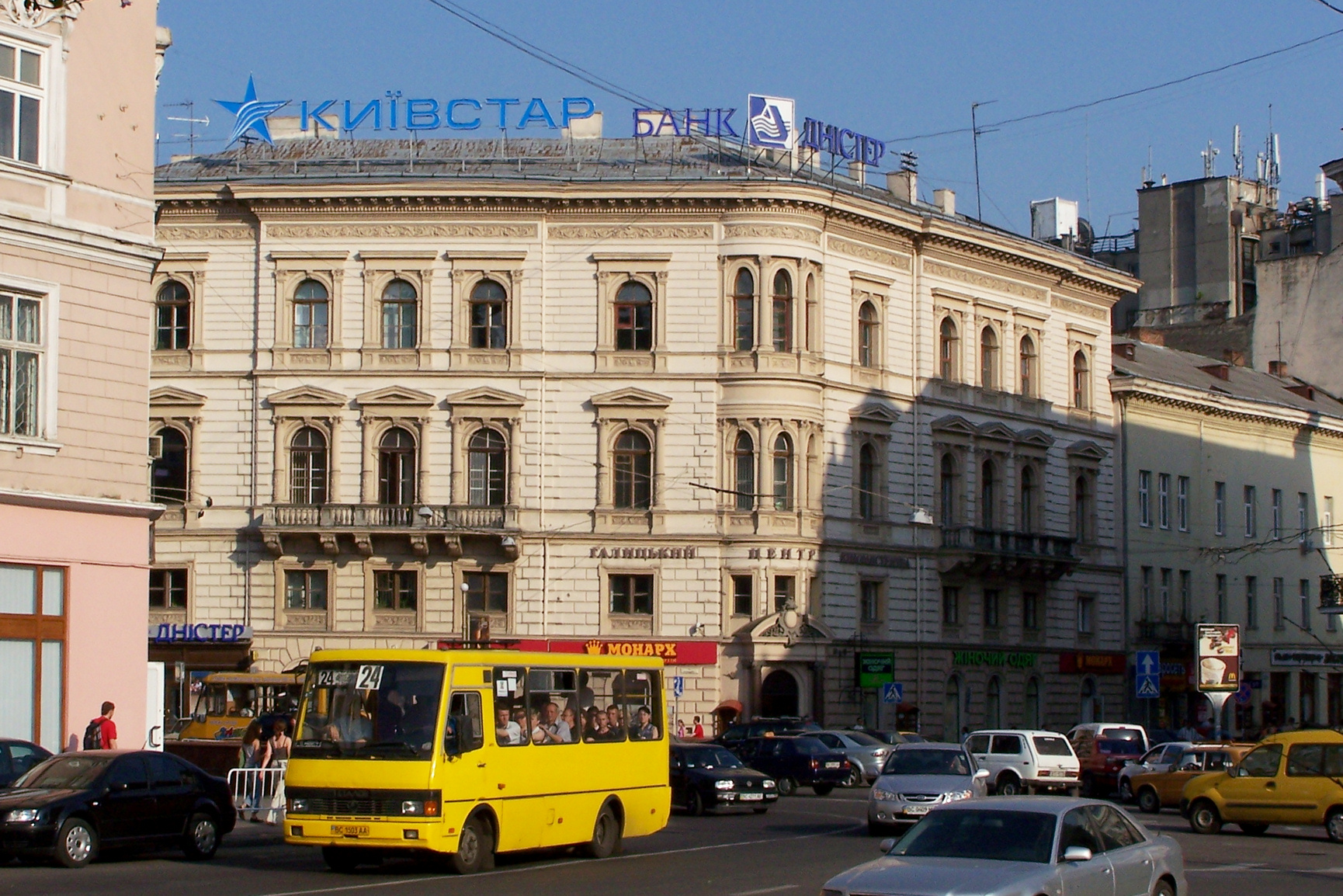 Tenement in Lviv (Ukraine).